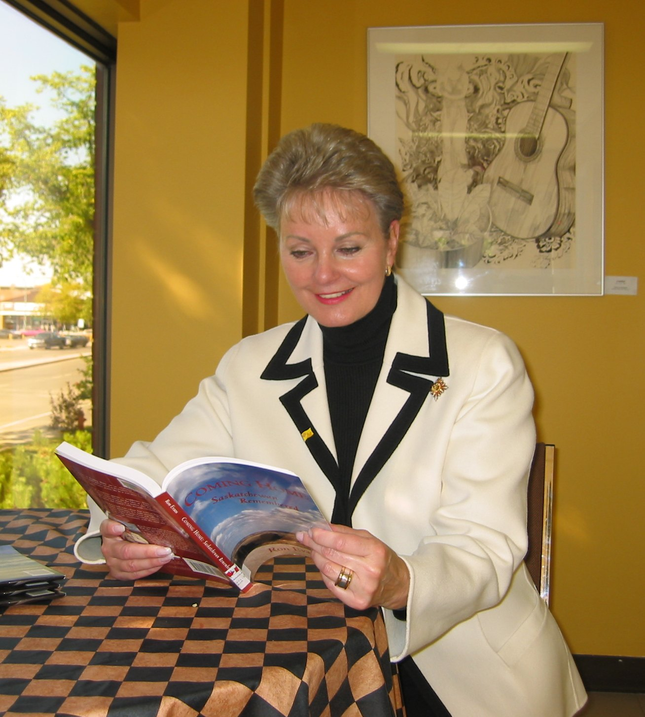 Lieutenant governor Lynda Haverstock in Yorkton at the art gallery, to help promote a Parkland Regional Library reading program with a photo for a promotional poster.